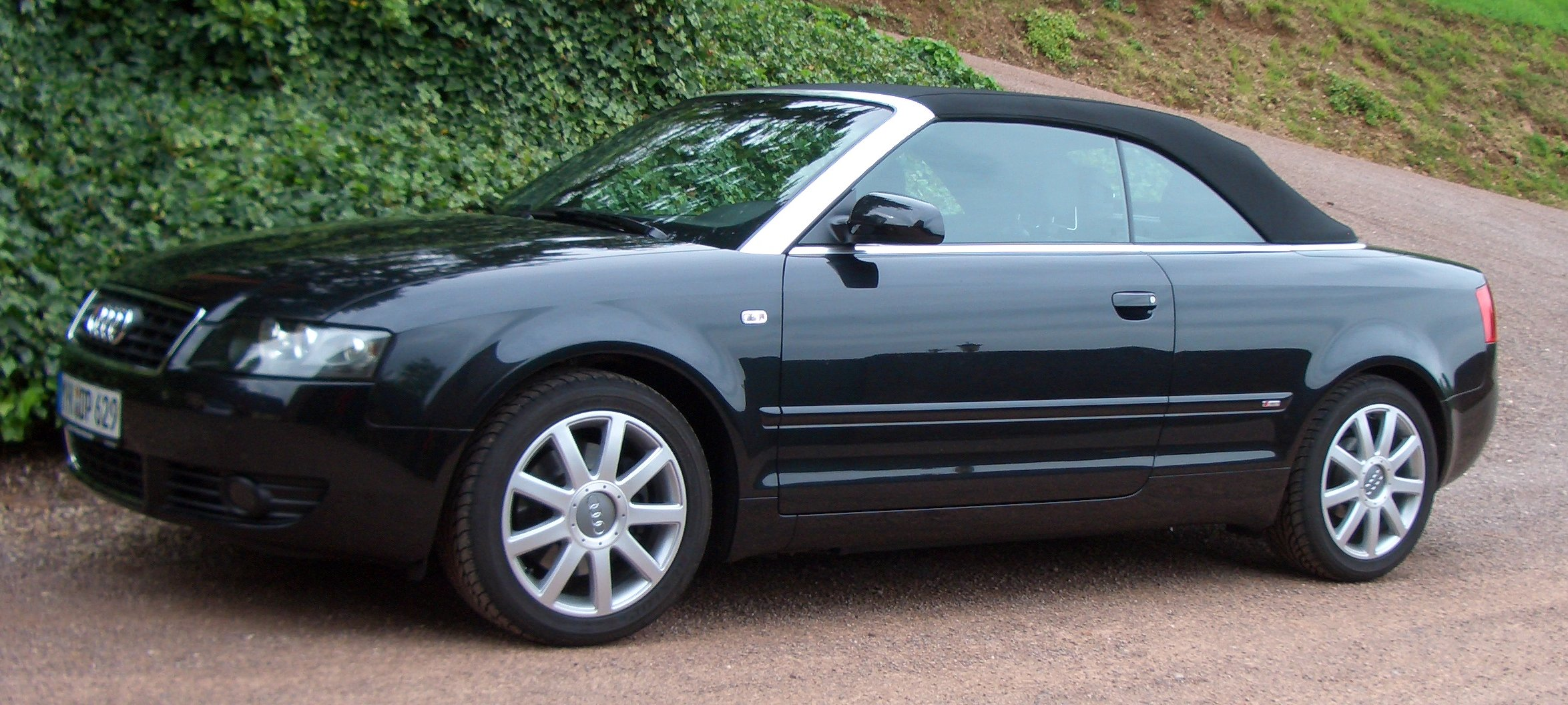 Audi A4 Convertible, closed